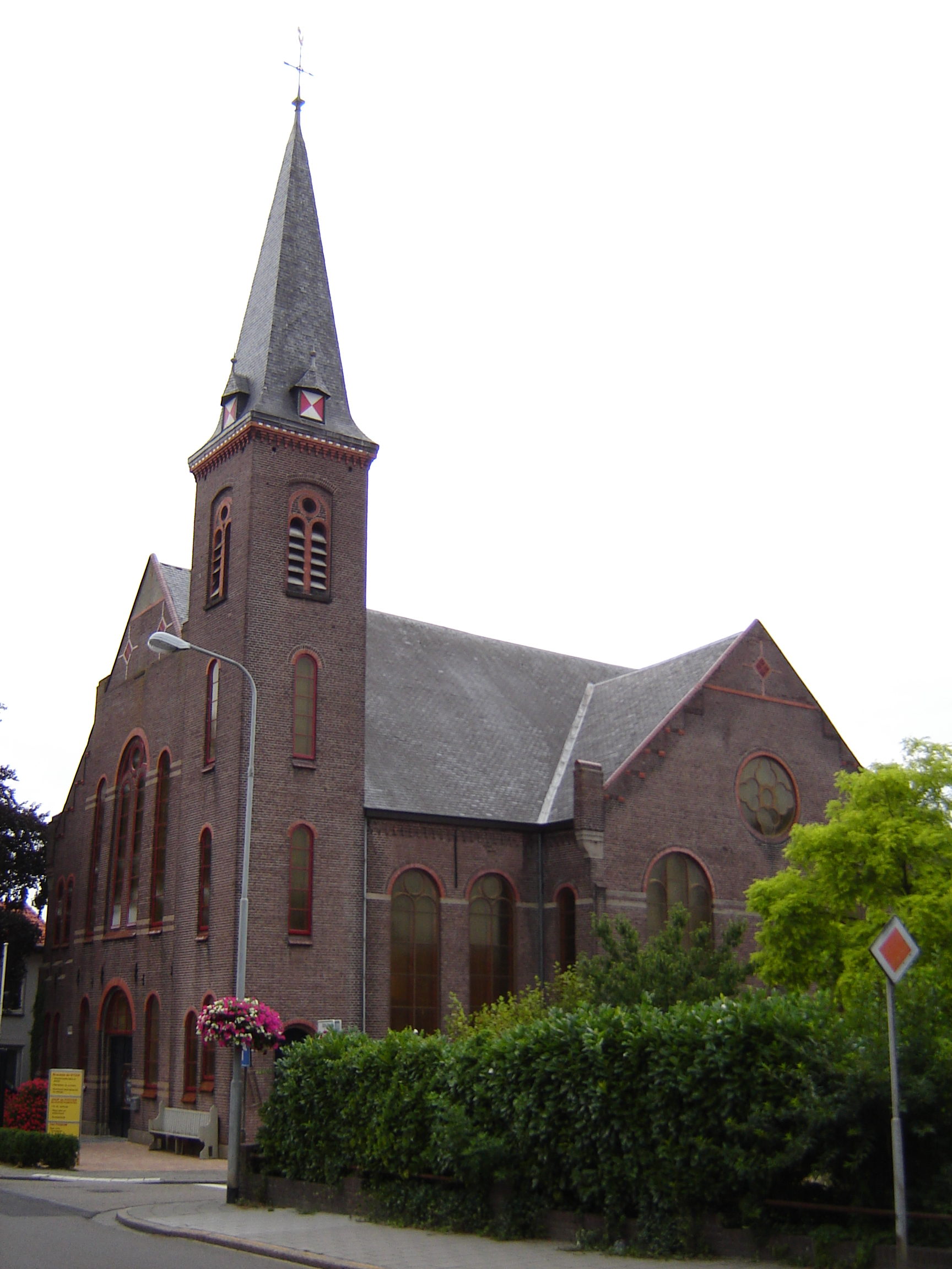 Church of the Reformed Churches in Zaamslag. Zaamslag, Terneuzen, Zeeland, Netherlands.